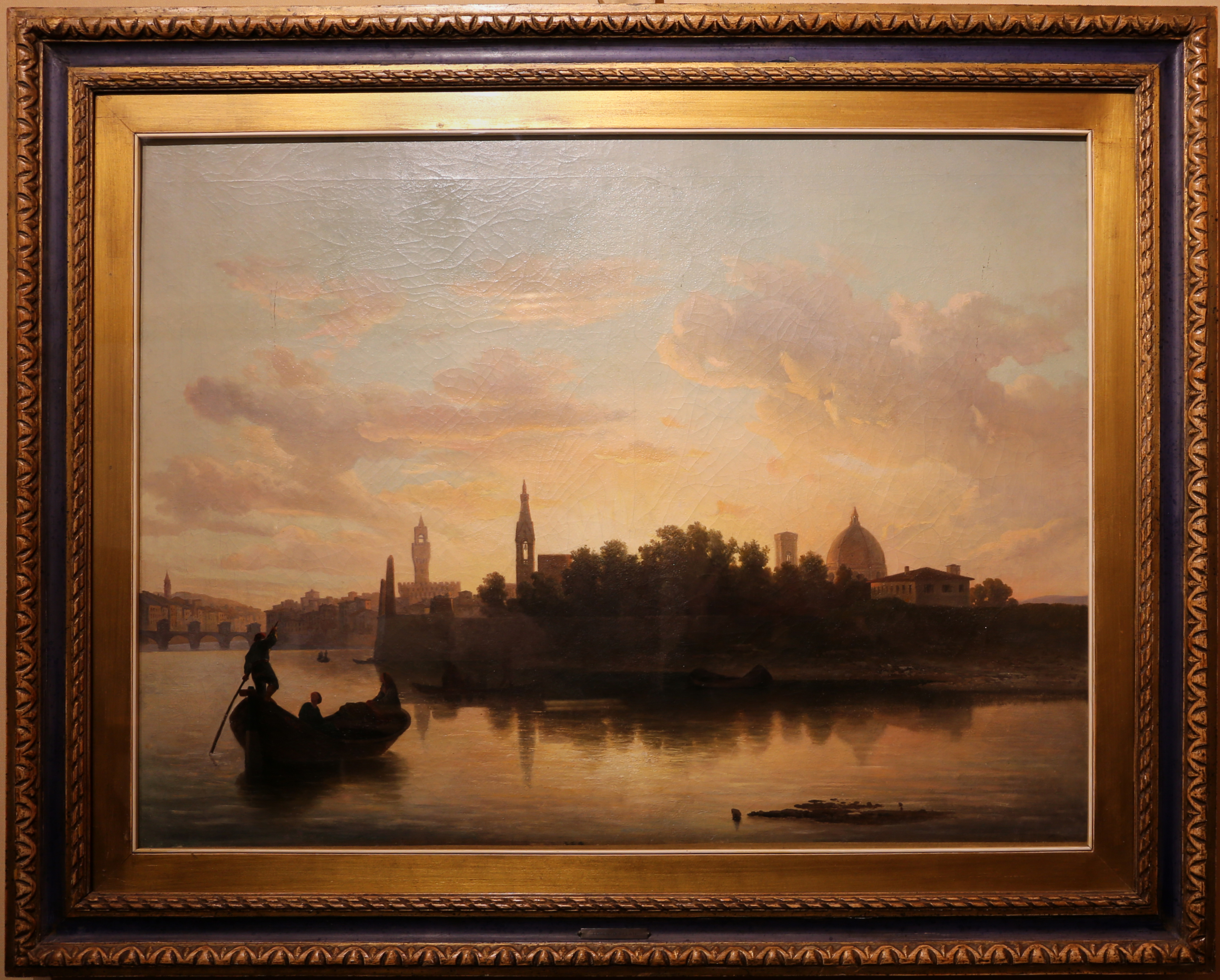 Cassa di Risparmio di Firenze art collection - Paintings